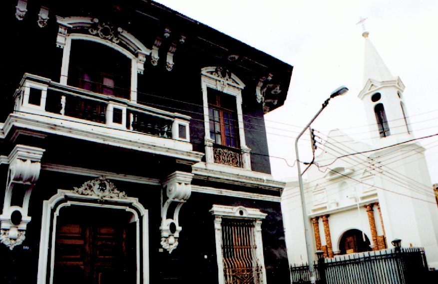 A few of the houses remaining from Colonial style era — in Piura, Peru